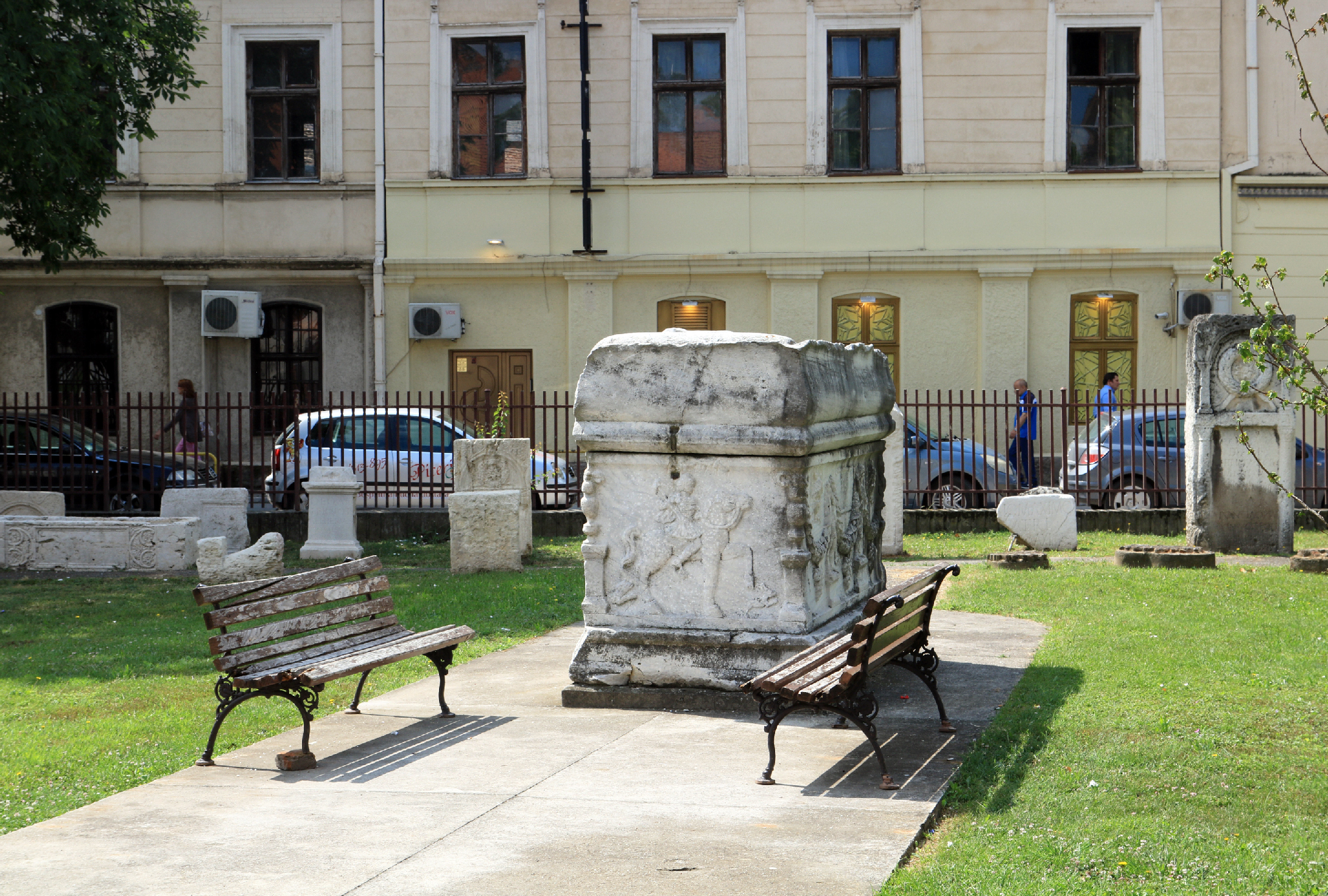 Roman sarcophagus in font of the National museum in Požarevac